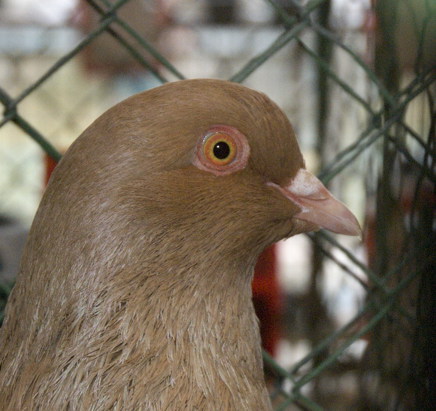 Detail of the head of the yellow benesov pigeon